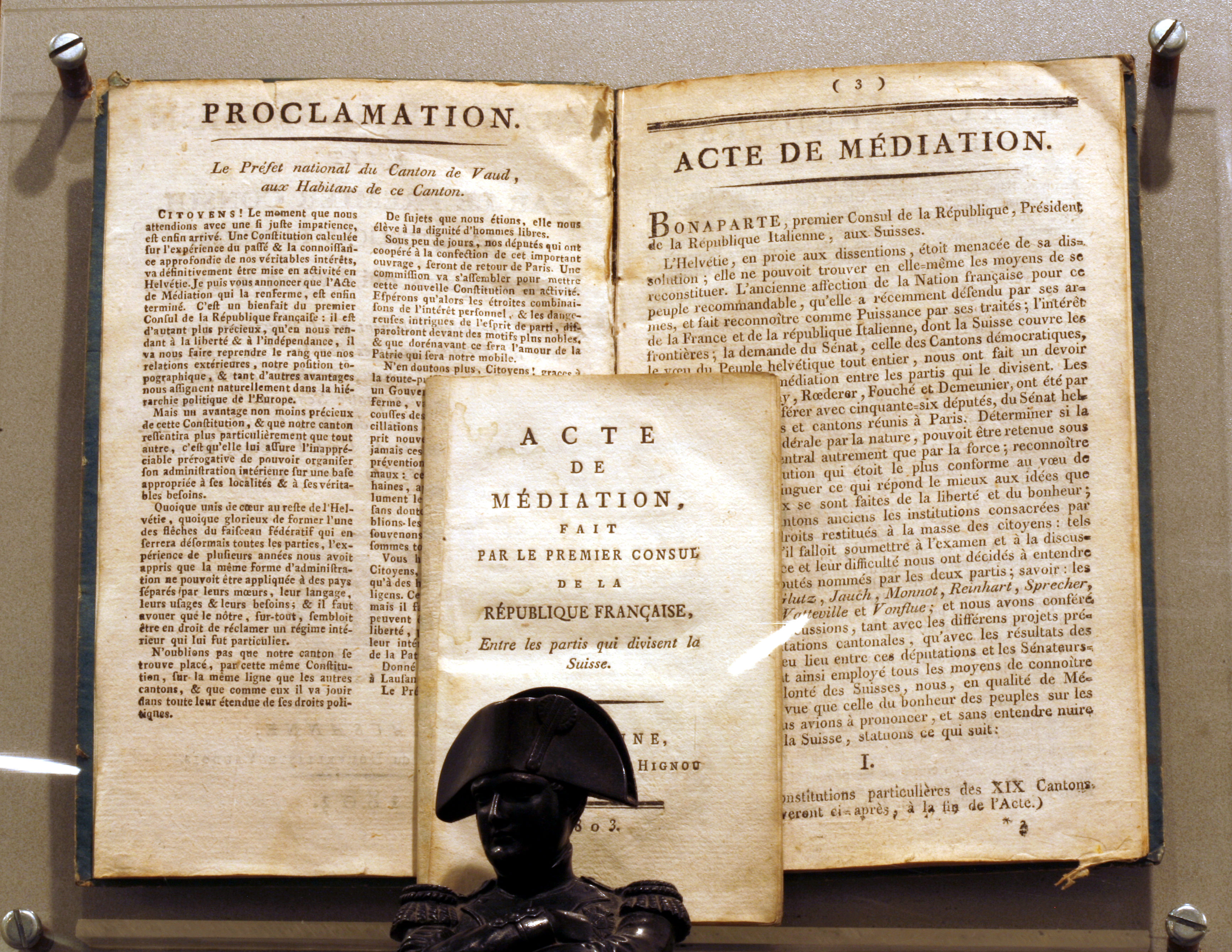 Mediation Act